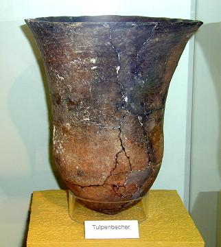 Tulipbeaker of the Michelsberg culture. Original. Citymuseum Bruchsal.